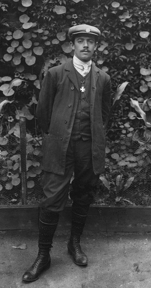 Olympic Games, London, England, Marathon, Italy's Dorando Pietri.